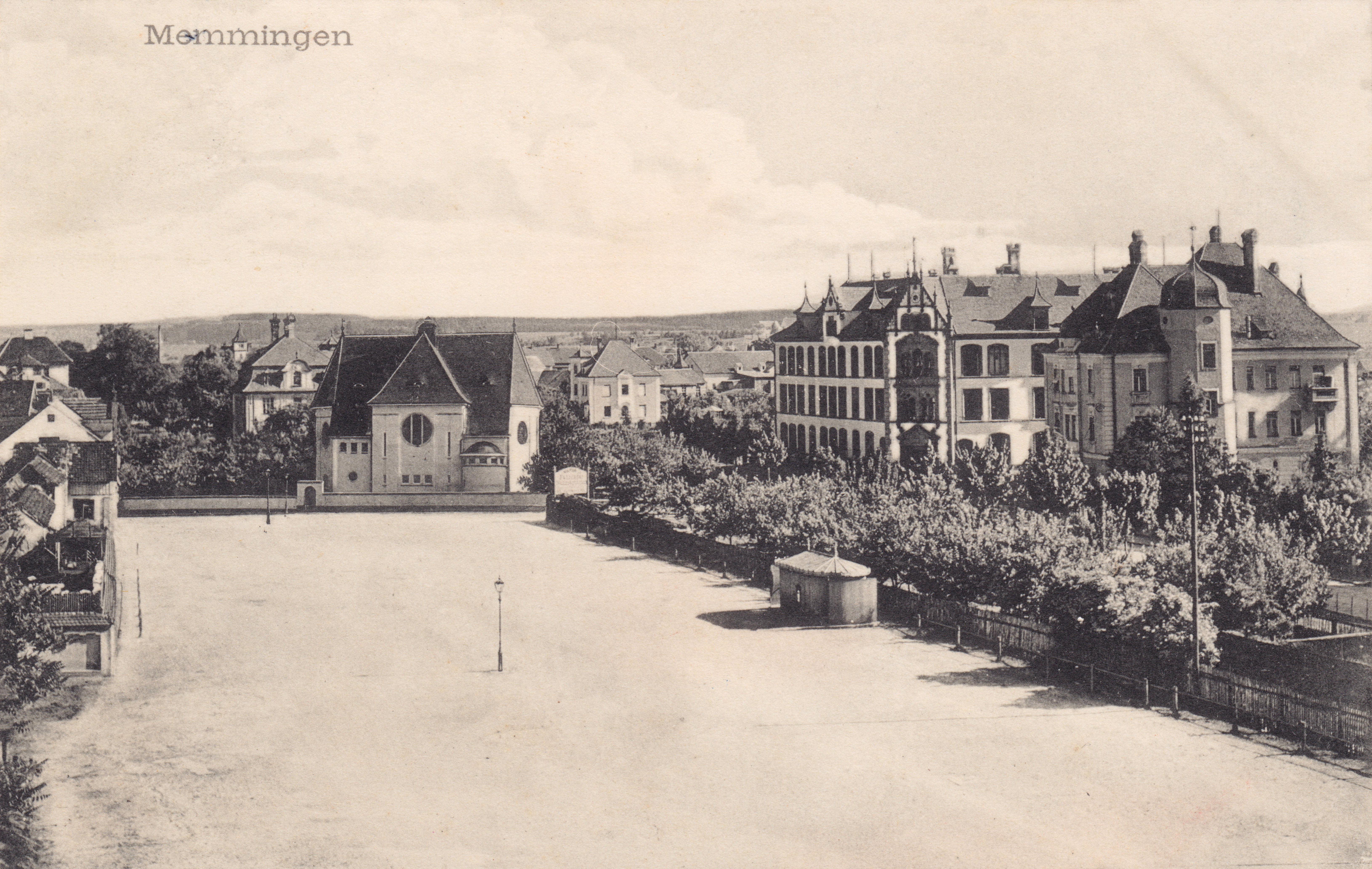 Postcard showing Westertorplatz, Memmingen, with synagogue, public school and tax office. The synagogue has been copied into an earlier, pre-construction photograph.